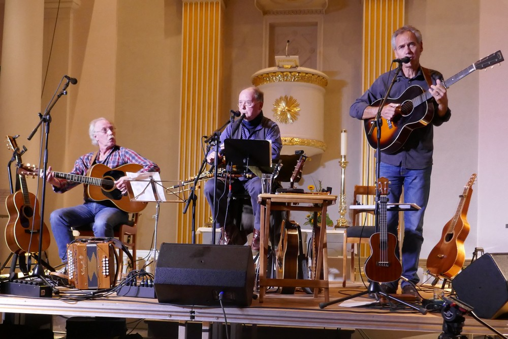 North German folk group Dragseth playing a gig at the central church, Husum on 29 9 2017. From left: Kalle Johannsen, Manuel Knortz, Jens Jesse.